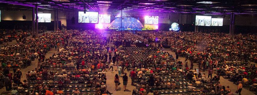 Celebración Convención Global